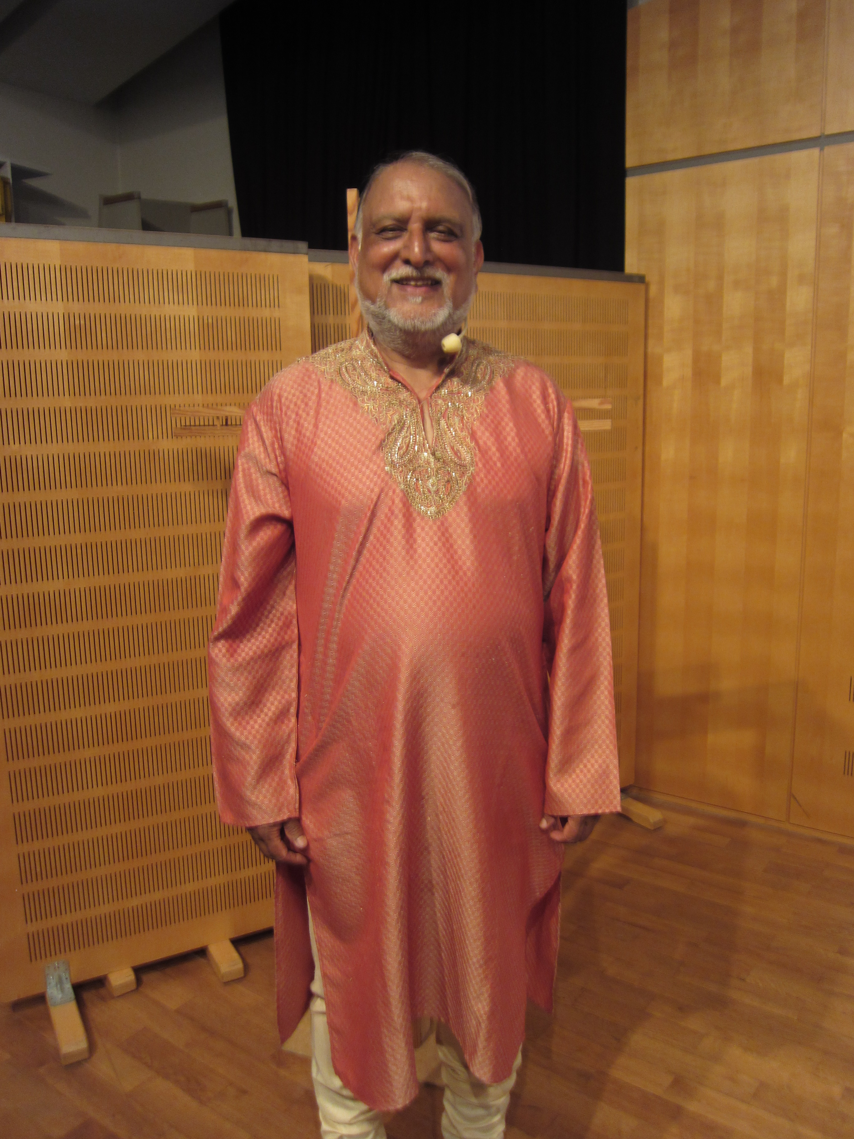 Vishal Mangalwadi during a Lecture at the CVJM Nuremberg (Germany)